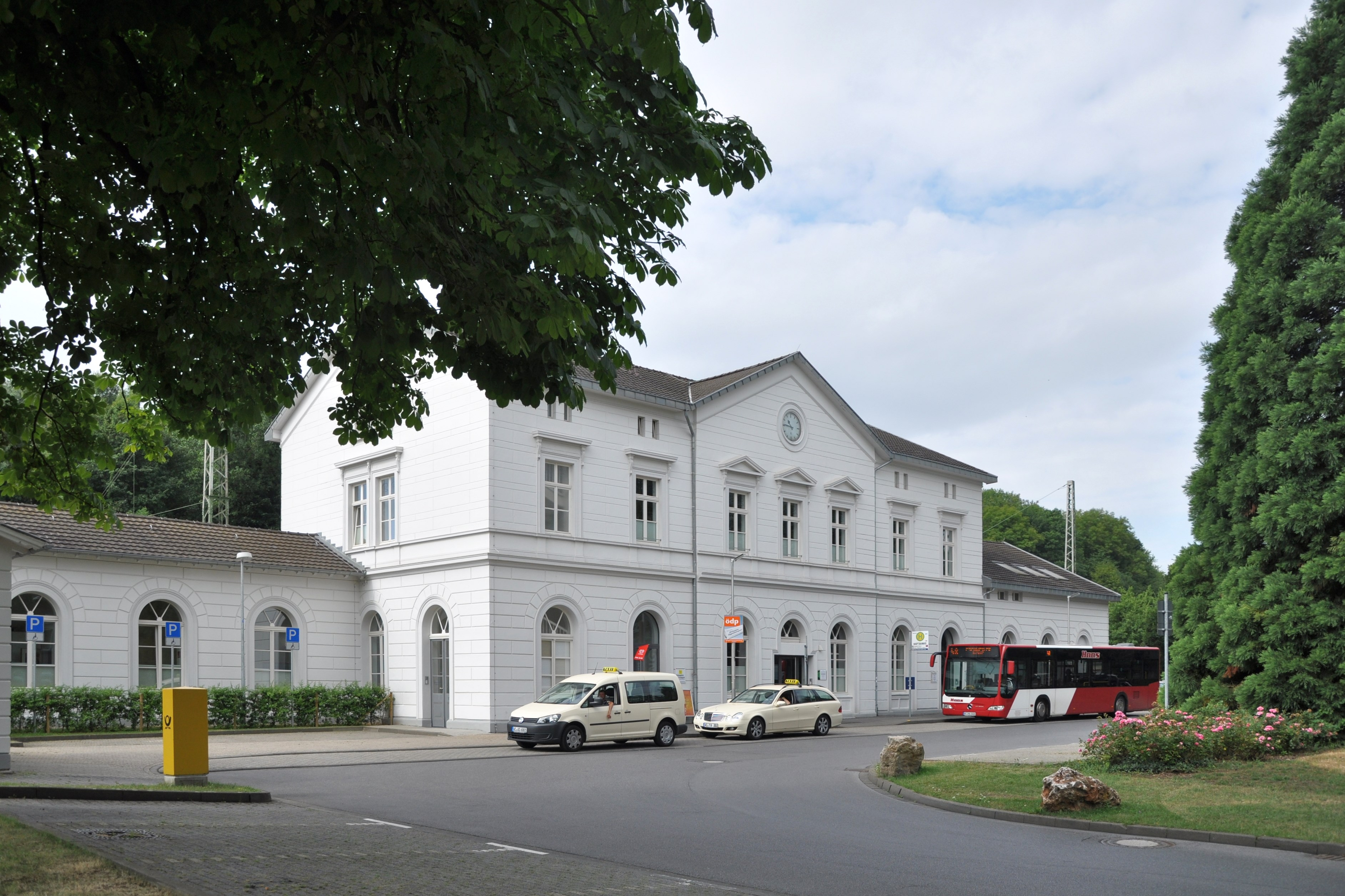 Eschweiler Central Station, station building after its renovation.